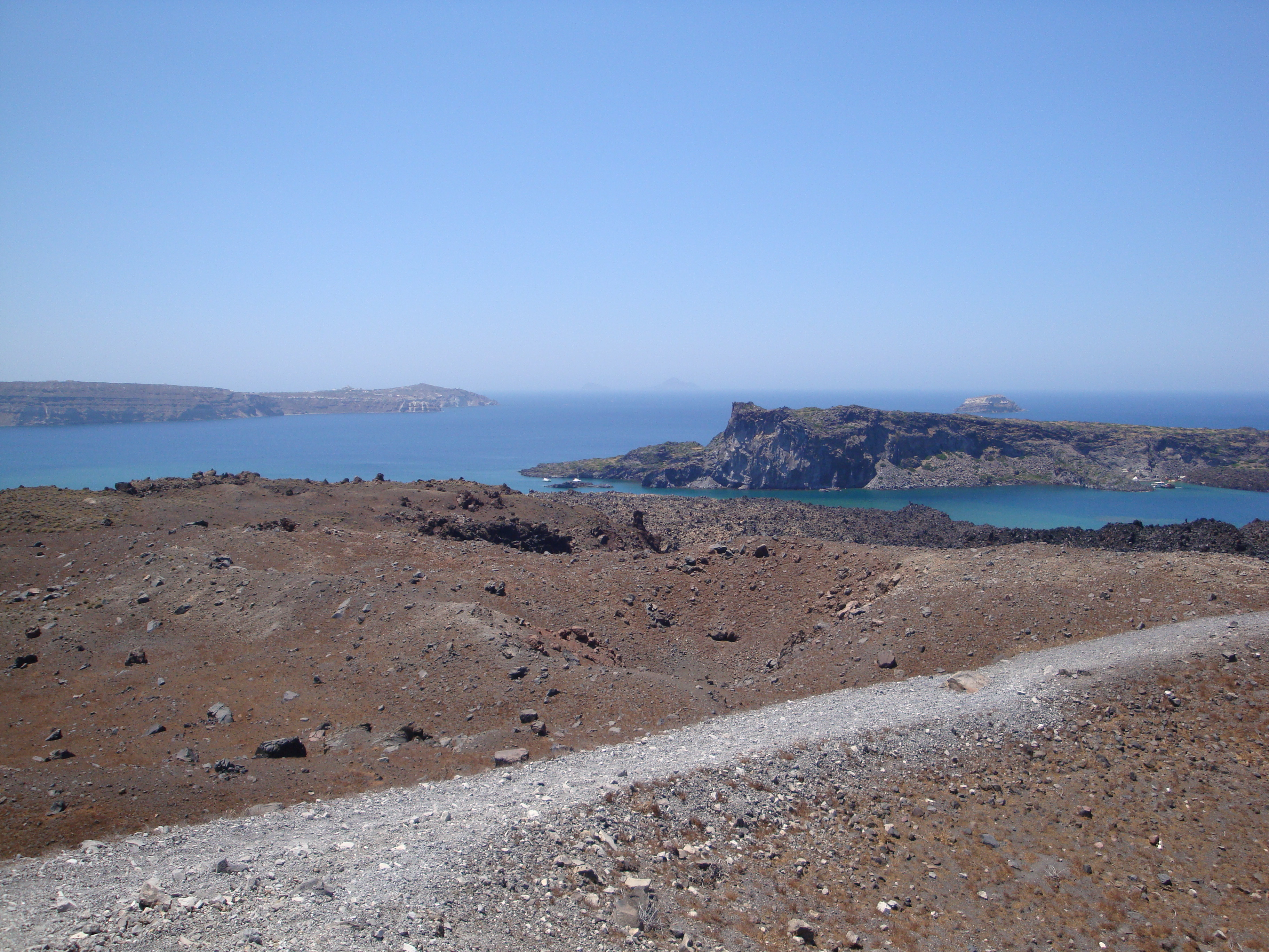 Nea Kameni, Santorini/Thira